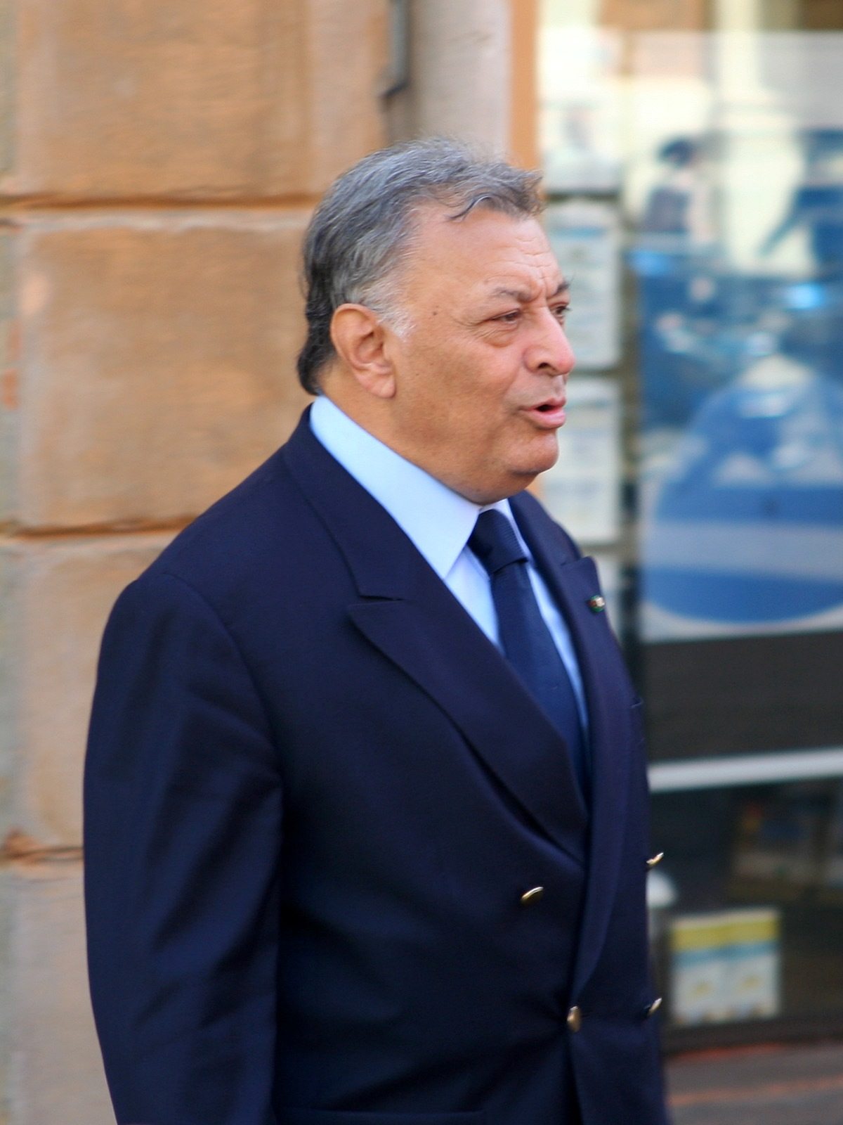 Indian conductor Zubin Mehta in Modena, Italy, at Pavarotti's funeral.